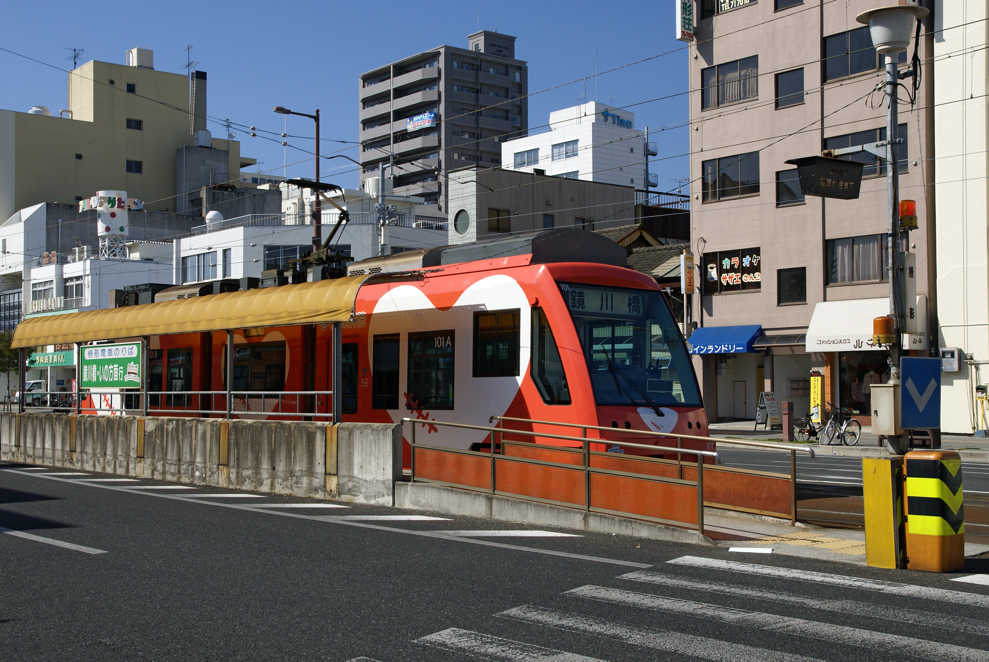 Masugata Station in Kochi, Kochi prefecture, Japan